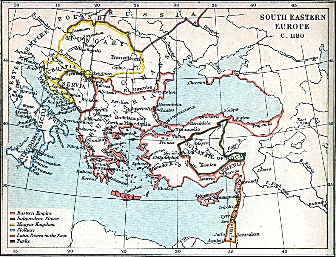 Map of south-eastern Europe and the Levant in 1180 AD